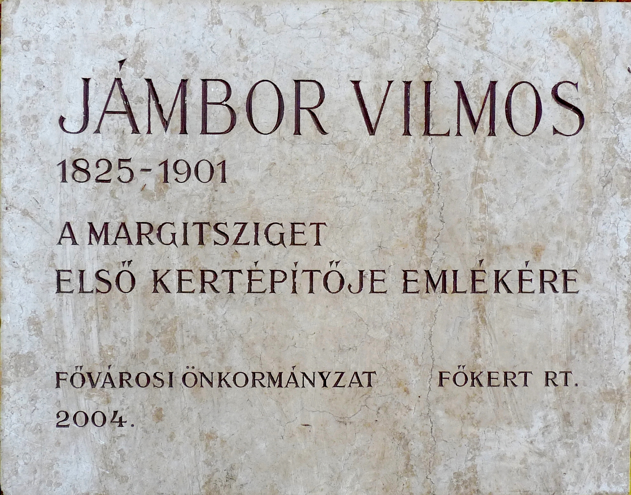 Vilmos Jámbor commemorative plaque in Budapest District XIII, Margaret Island.